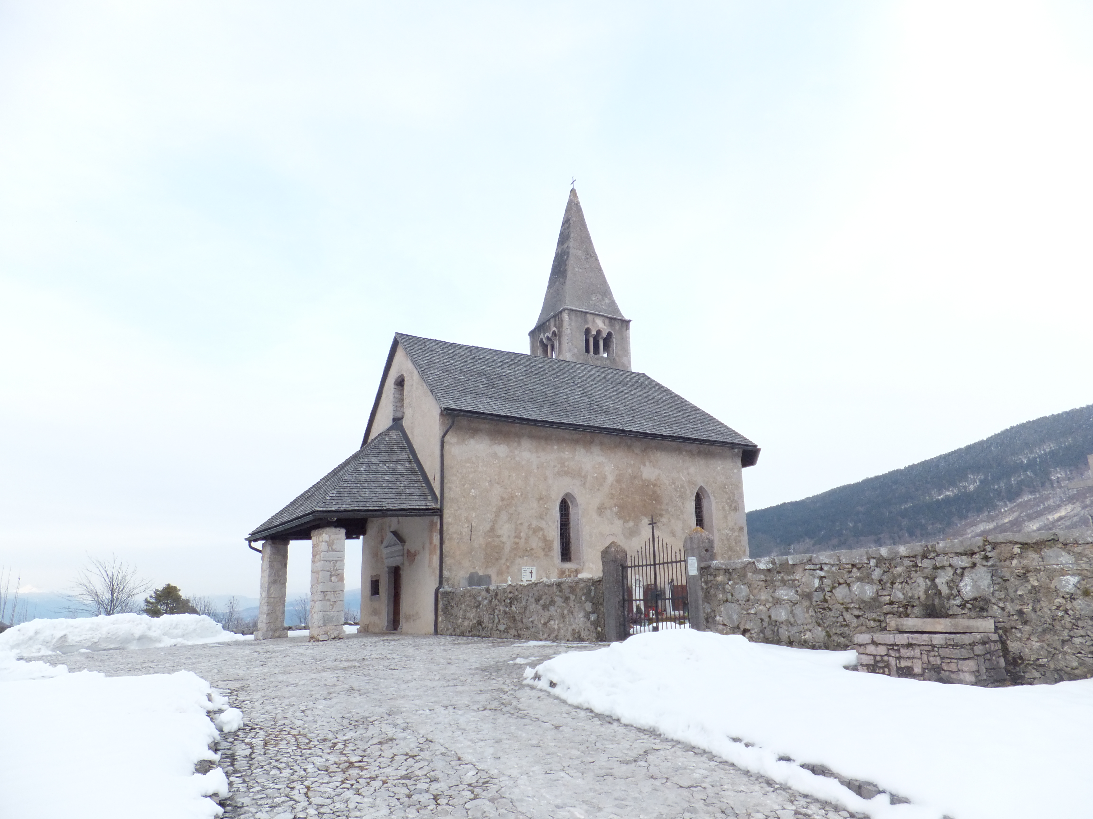 Cavedago (Trento, Italy) - Church of Saint Thomas